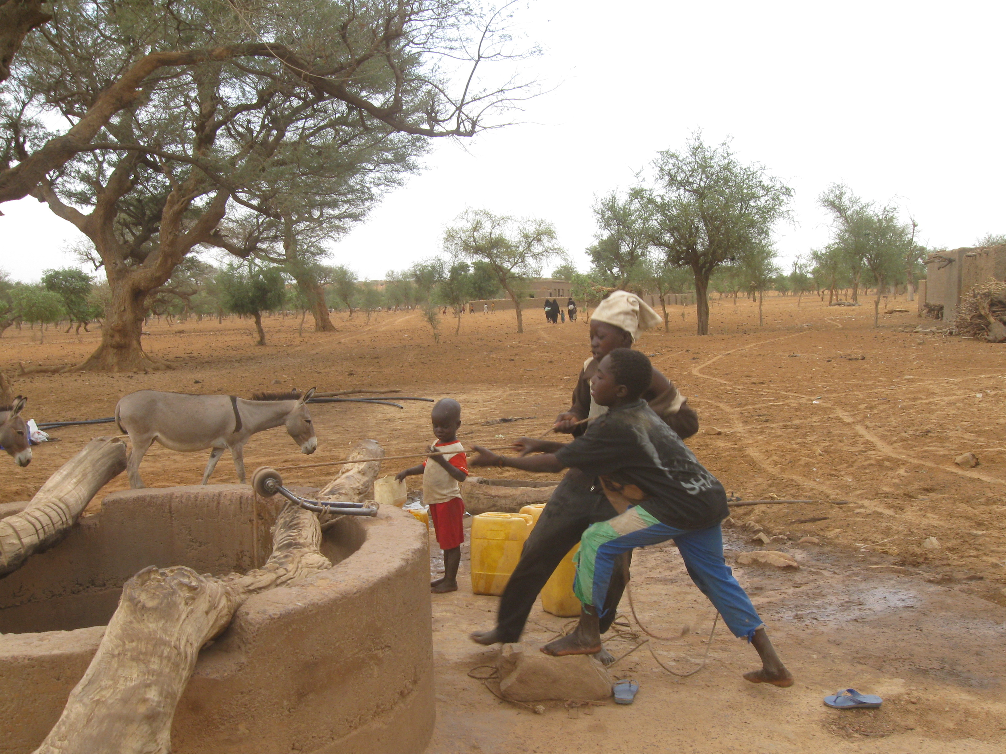 Extracción manual de agua Aldea de Ibi